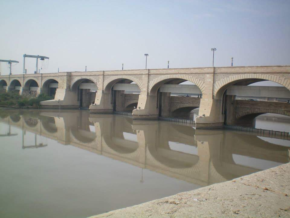 Old is gold.. famous sukkur barrage